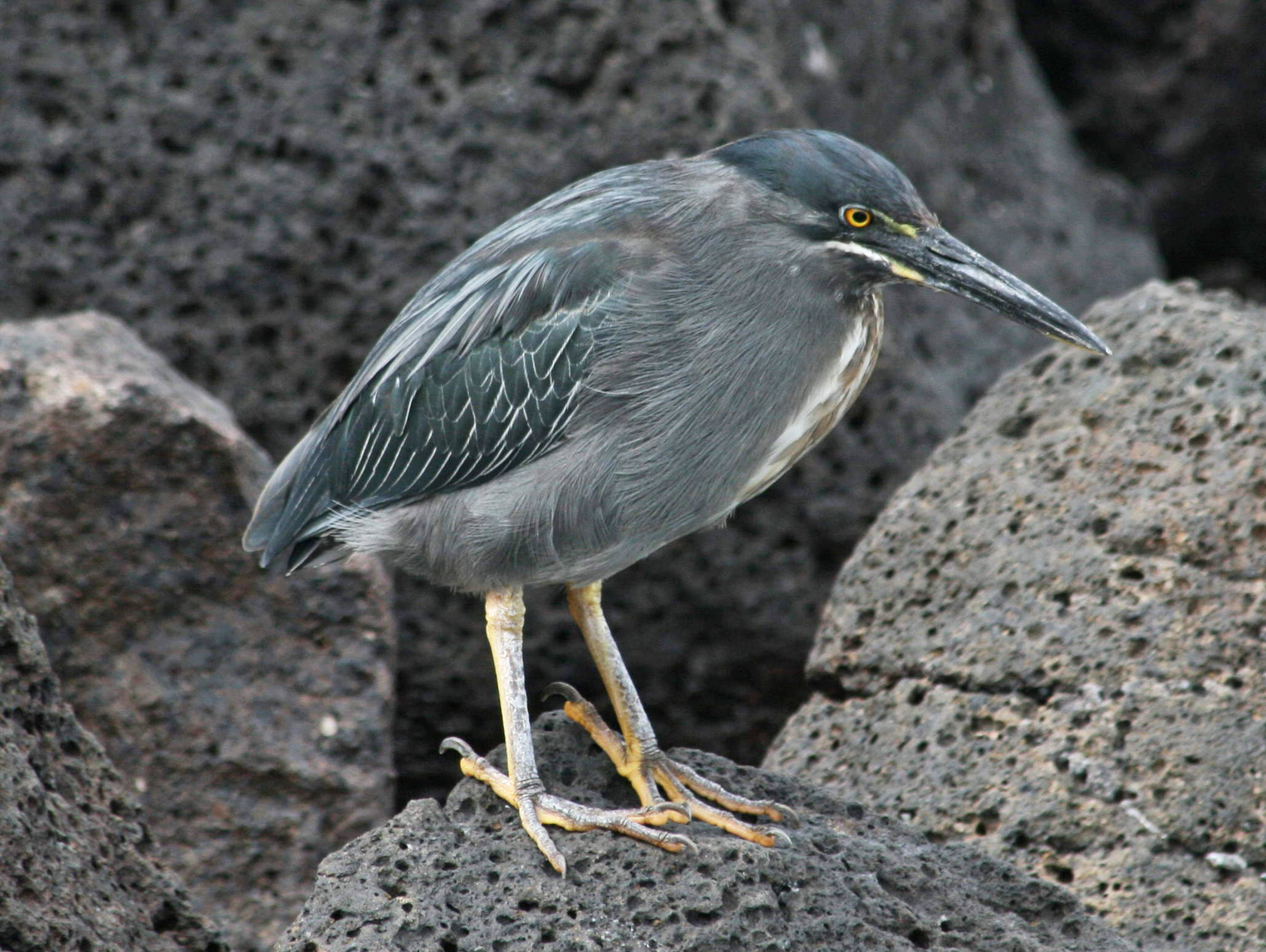 Lava Heron (Butorides sundevalli), also known as the Galapagos Heron - Galapagos Islands